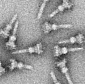 Transmission electron-microscope image of isolated T3SS needle complexes from Salmonella typhimurium. Each needle measures at around 70 nanometer length.